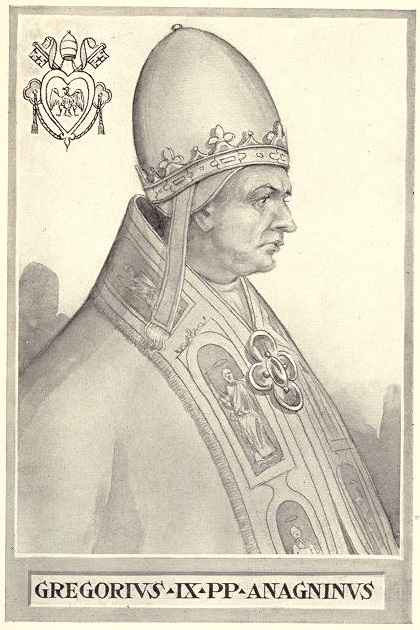 This illustration is from The Lives and Times of the Popes by Chevalier Artaud de Montor, New York: The Catholic Publication Society of America, 1911. It was originally published in 1842.